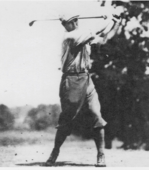 Bradley Walker, born 1877. He was the golf champion at a country club in Nashville, Tennessee